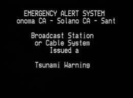 An example of tsunami warning